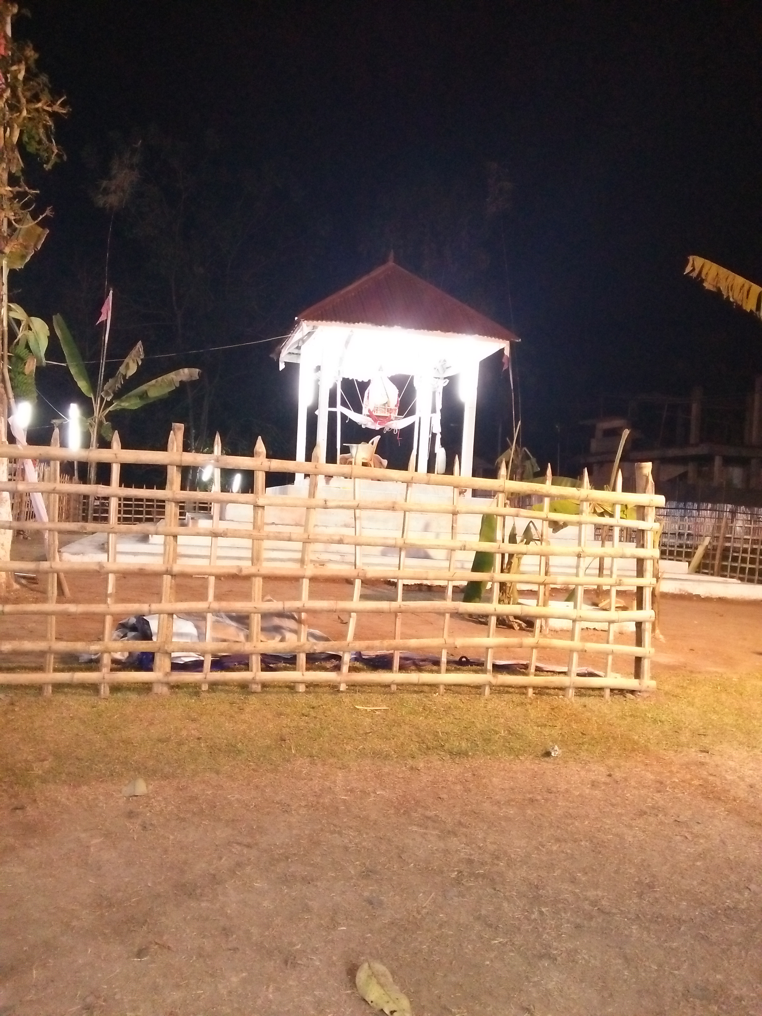 Bijni